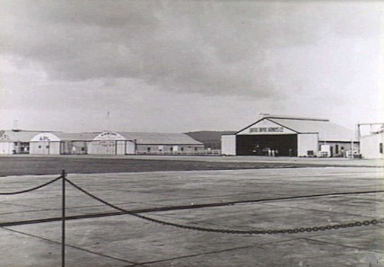 AWM Caption: 1940-02-18. ARCHERFIELD, QUEENSLAND - HANGARS. RAAF SURVEY FLIGHT.